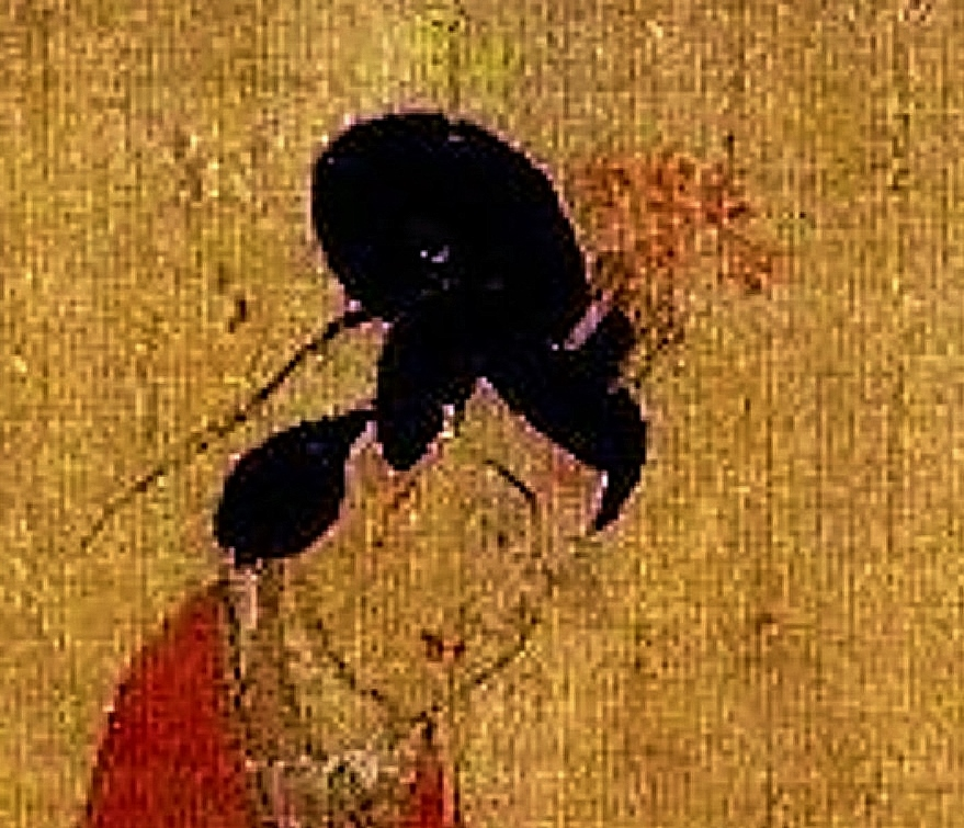 Scene 7 (The toilette scene) of the British Museum copy of the "Admonitions Scroll", attributed to Gu Kaizhi.